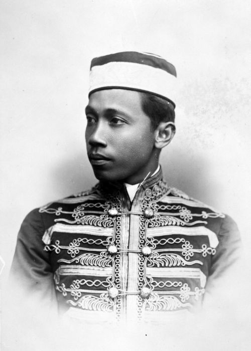 Studio portrait of the Sultan of Serdang